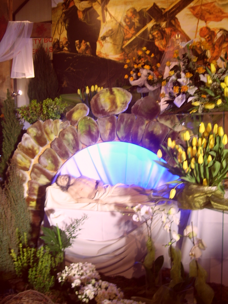 Jesus at the tomb, in the chapel of Saint Bogumil in Koło